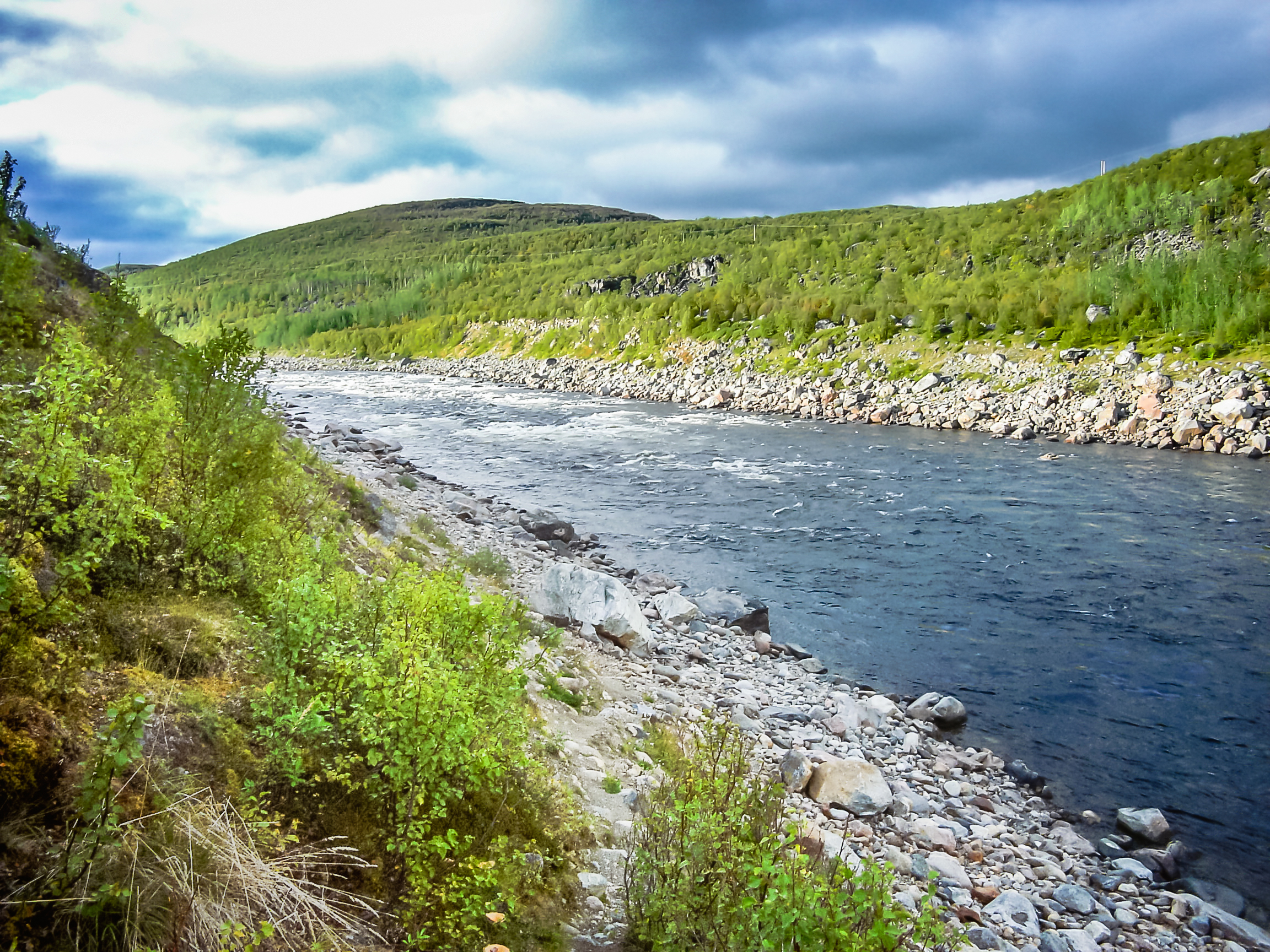 Tana (Teno) River near Nuorgam, seen from the Finnish side